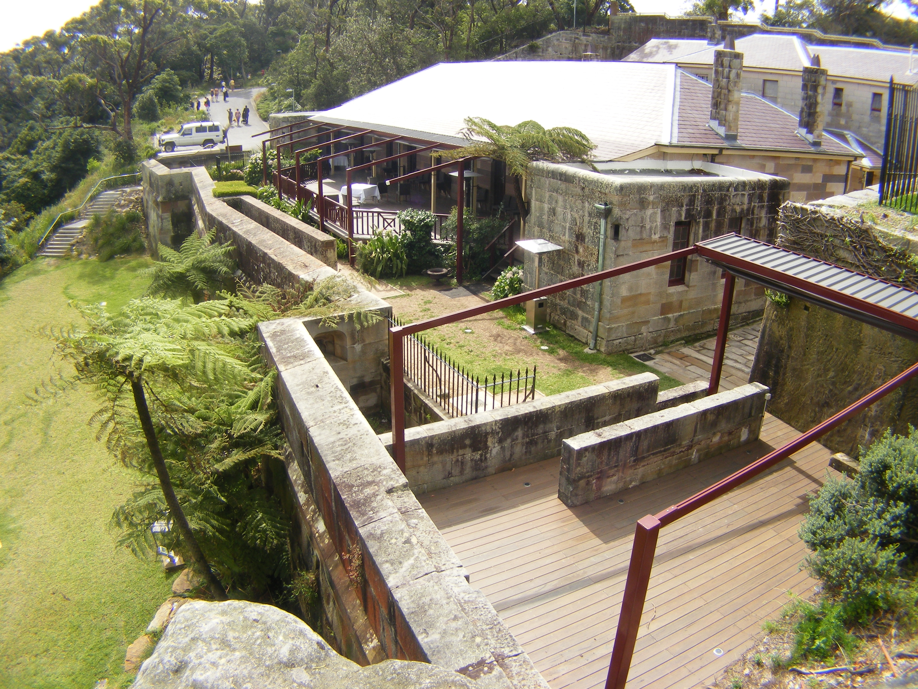 Sydney Harbour Defences. Inside a fort in Sydney Harbour. Georges Head Battery. Former officers residence and barracks, now a restaurant.